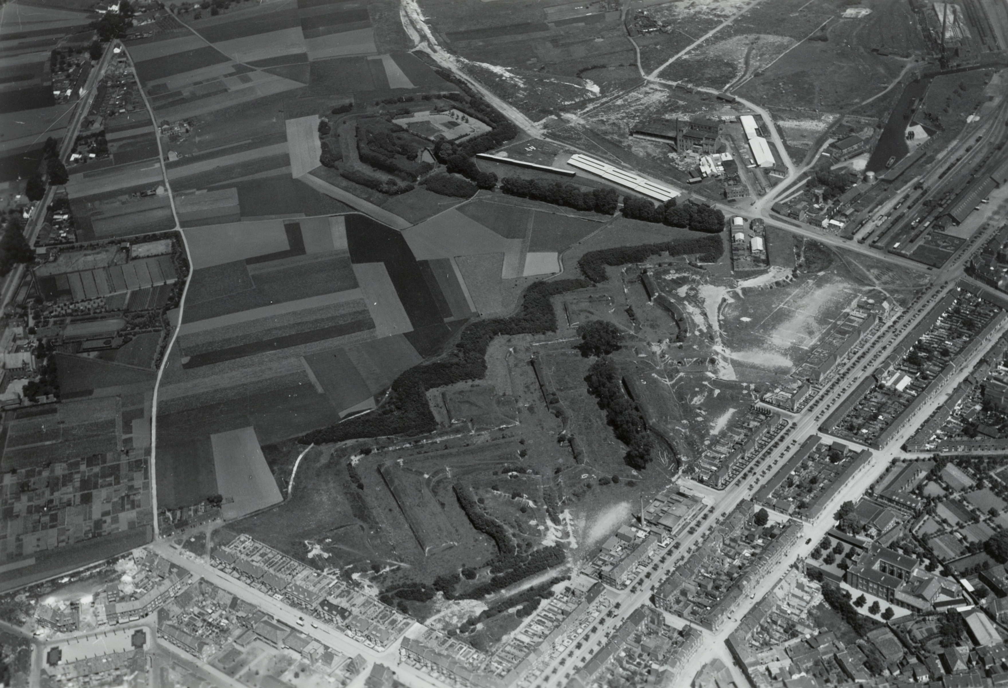 Aerial photograph of Maastricht, Limburg, The Netherlands.